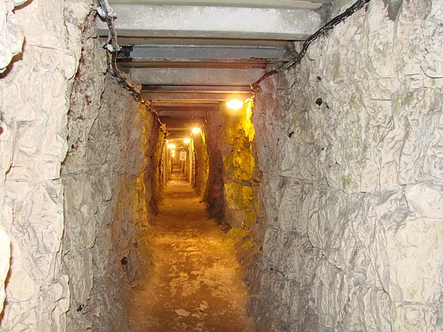 This is a picture taken into one of the numerous tunnels dug by the Canadian troops during WW1 in the Vimy Sector